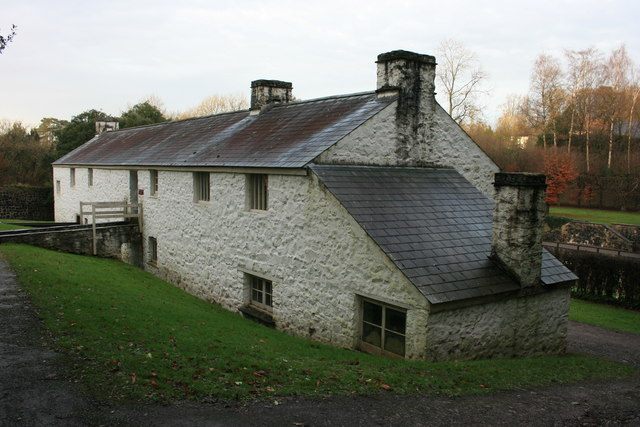 Esgair Moel woollen mill, originally from Llanwrtyd Wells, Powys, Mid Wales. Re-erected at St Fagans National History Museum, Cardiff, in 1952.